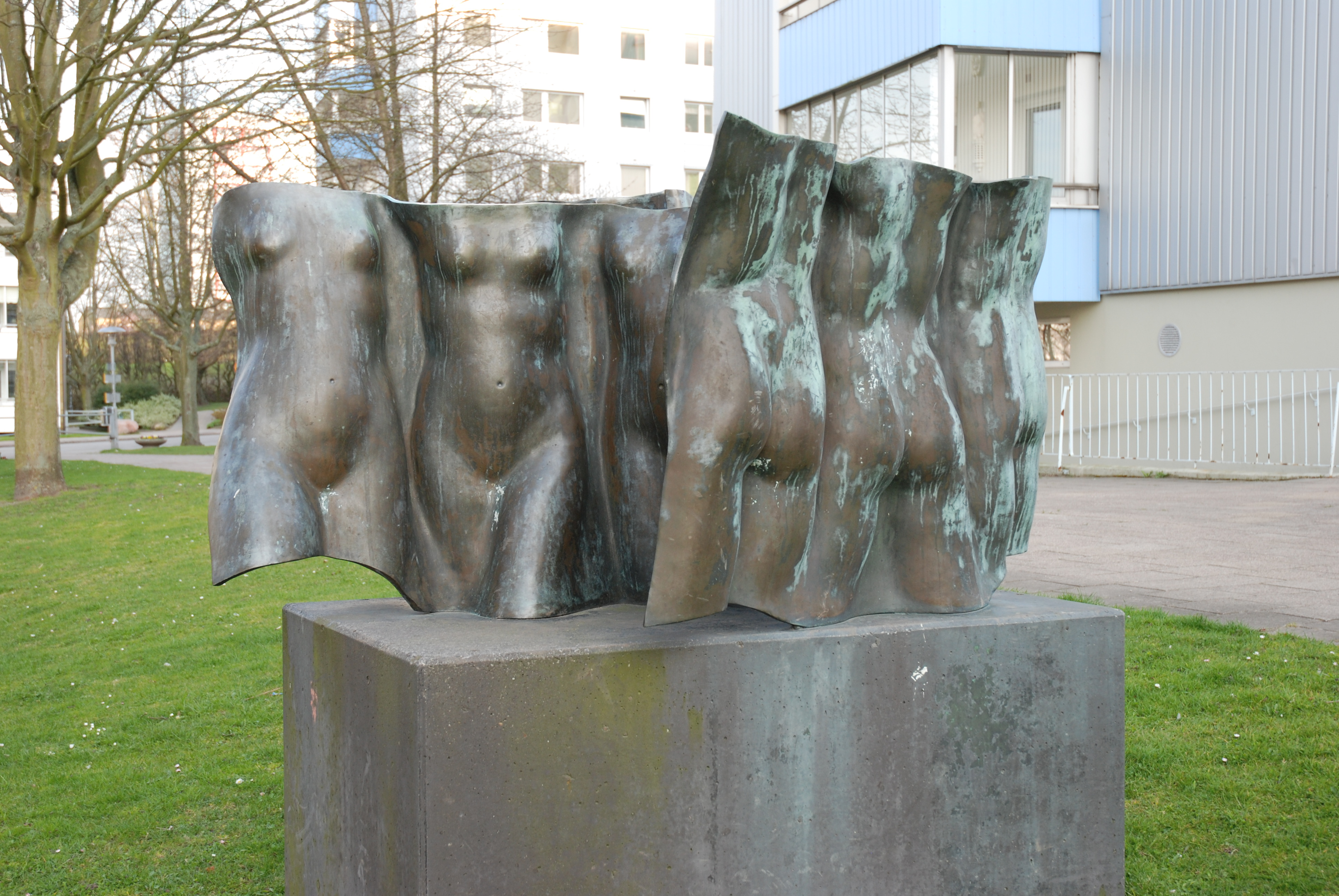 Barbro Bäckström´s I rena glädjen (In pure joy), Malmö. Sweden